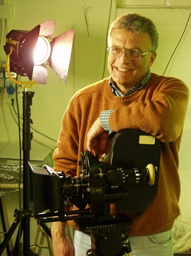 Roberto Lione